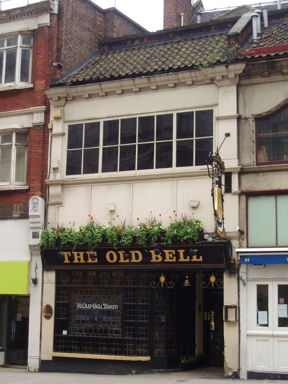 Pub with nice glass frontage on Fleet St. Address: 95 Fleet Street. Former Name(s): Ye Olde Bell Tavern. Owner: Mitchells and Butlers [Nicholson's] (website). Links: Fancyapint Beer in the Evening Dead Pubs (history)